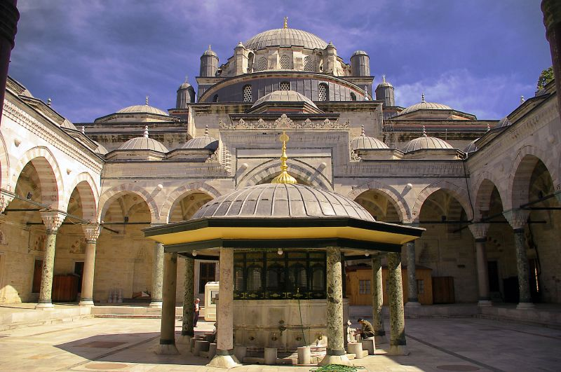 Beyazıt camii